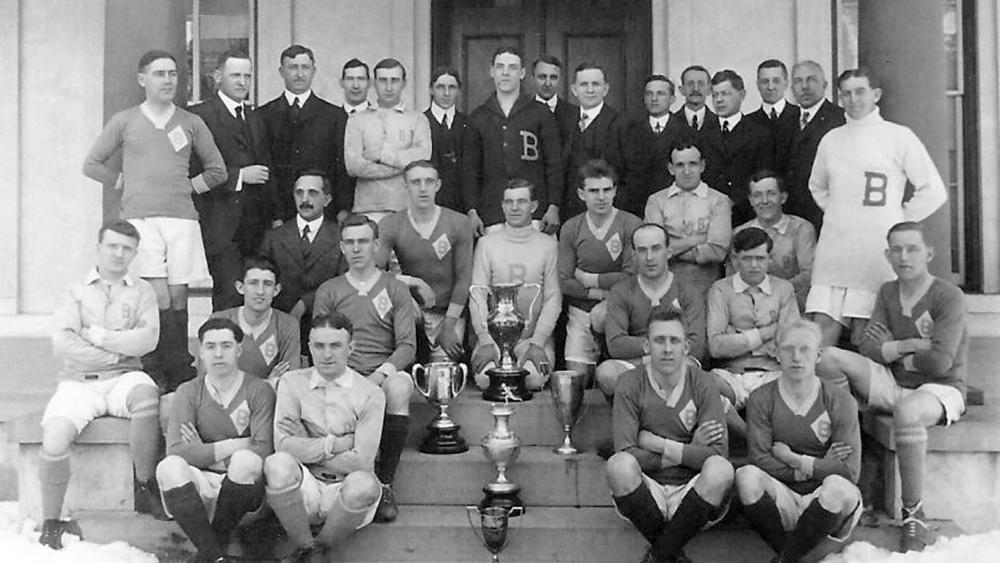 Bethlehem Steel Soccer Club at the former Bethlehem Steel Band Hall at New and Market streets. At one time, it was the former Bethlehem Public Library and it may now be part of Moravian Academy.